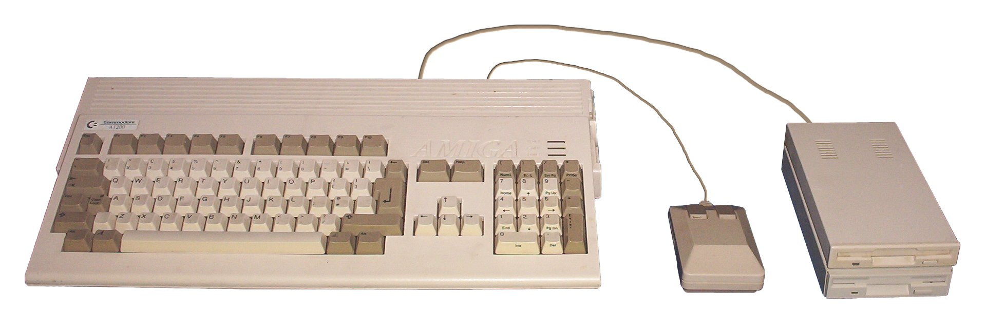 Amiga 1200 with mouse and two external floppy drives